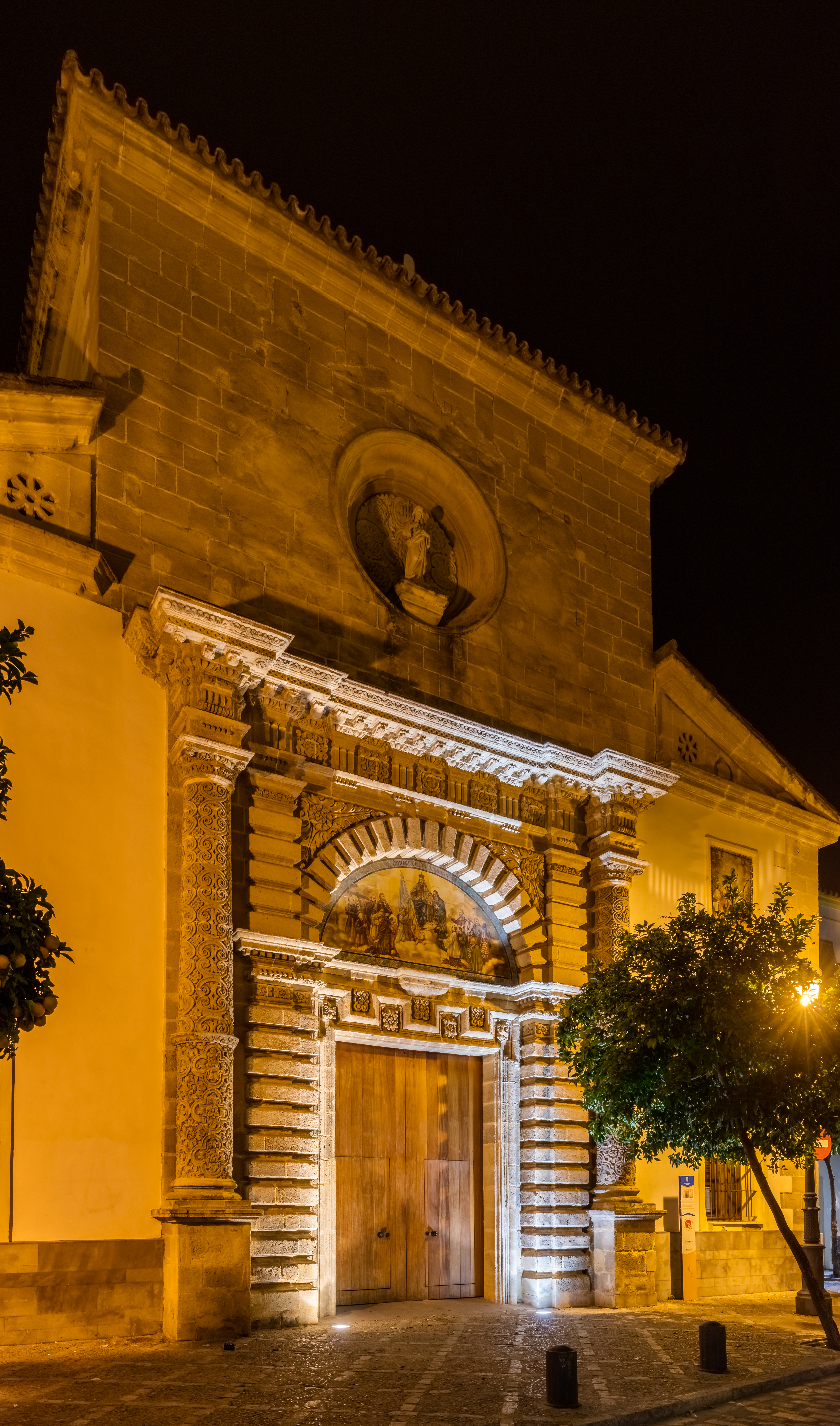 Sala Compañía, Jerez de la Frontera, Spain